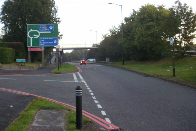 A34 approaching M6 The Birmingham Road (A34) at the junction with Lochranza Croft. Ahead is the M6 interchange.